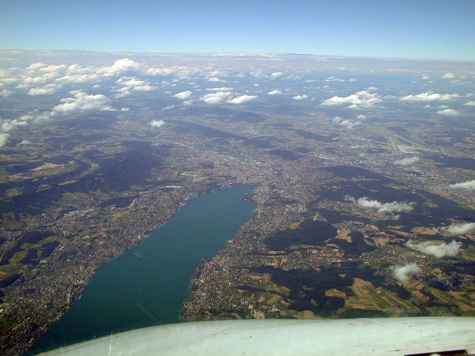 A view of Zürich from the south-east at roughly 12,000 feet..